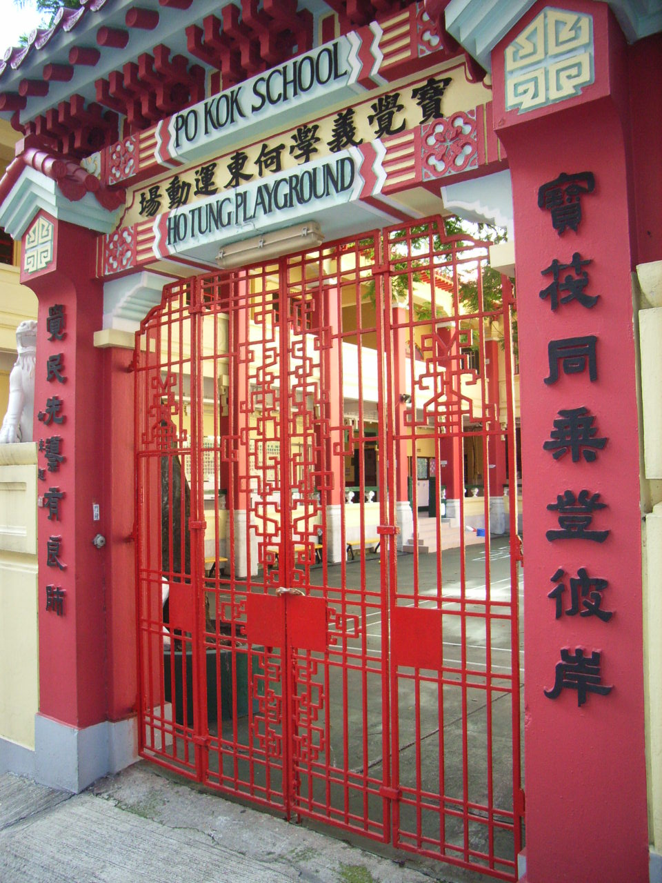 跑馬地zh:山光道的寶覺小學, Po Kok School Ho Tung Playground [1], Happy Valley, Hong Kong Author: BEVERLYSHEN